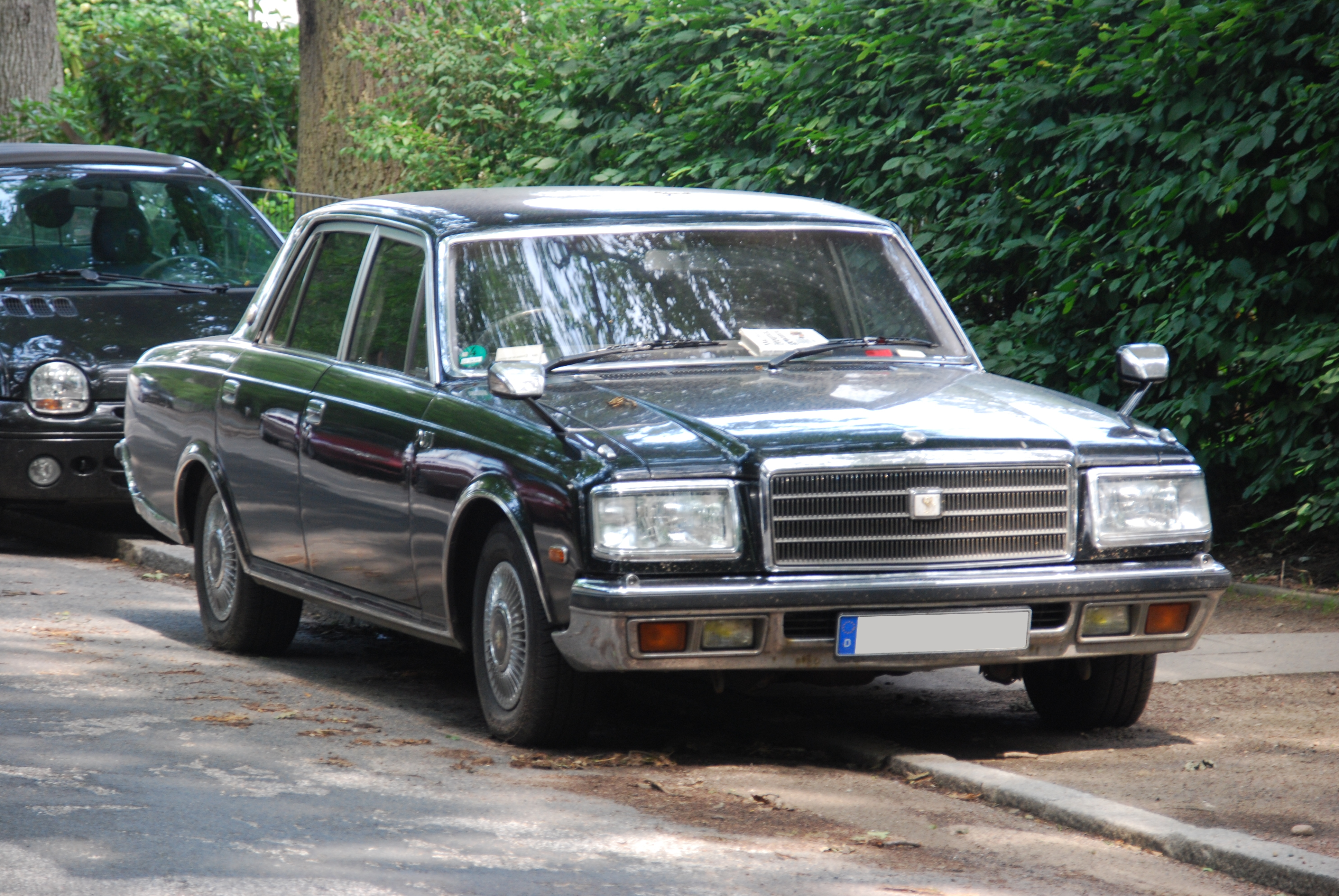 Toyota Century, registered in Germany